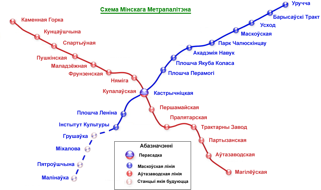 Map of Minsk metro as of November 2007